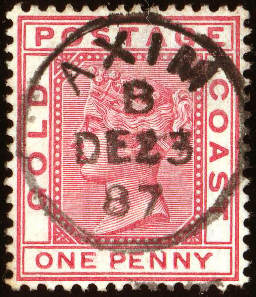 1 d Gold Coast issue 1884, circle at AXIM B on 23 December 1887. Yv13, SG12.